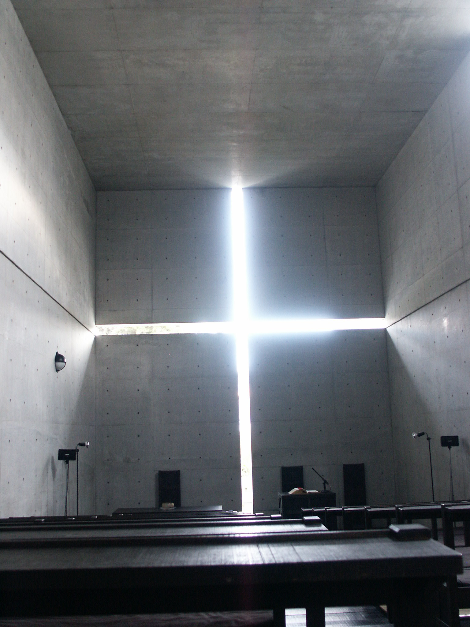 Interior of the Church of the Light, designed by Tadao Ando, in Ibaraki, Osaka Prefecture. I, Attila Bujdosó took this picture on 18/03/2005 in Osaka, Japan.